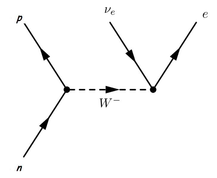 Feynman graph of Neutron Decay